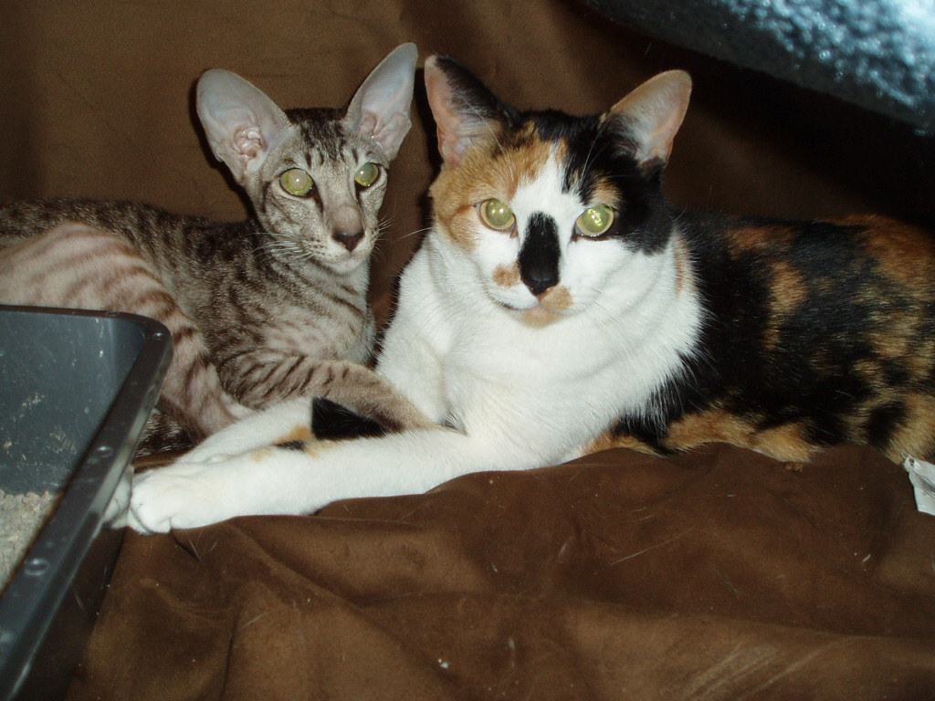 Oriental shorthair and a Manx